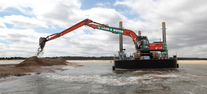 Dredging with long reach excavator